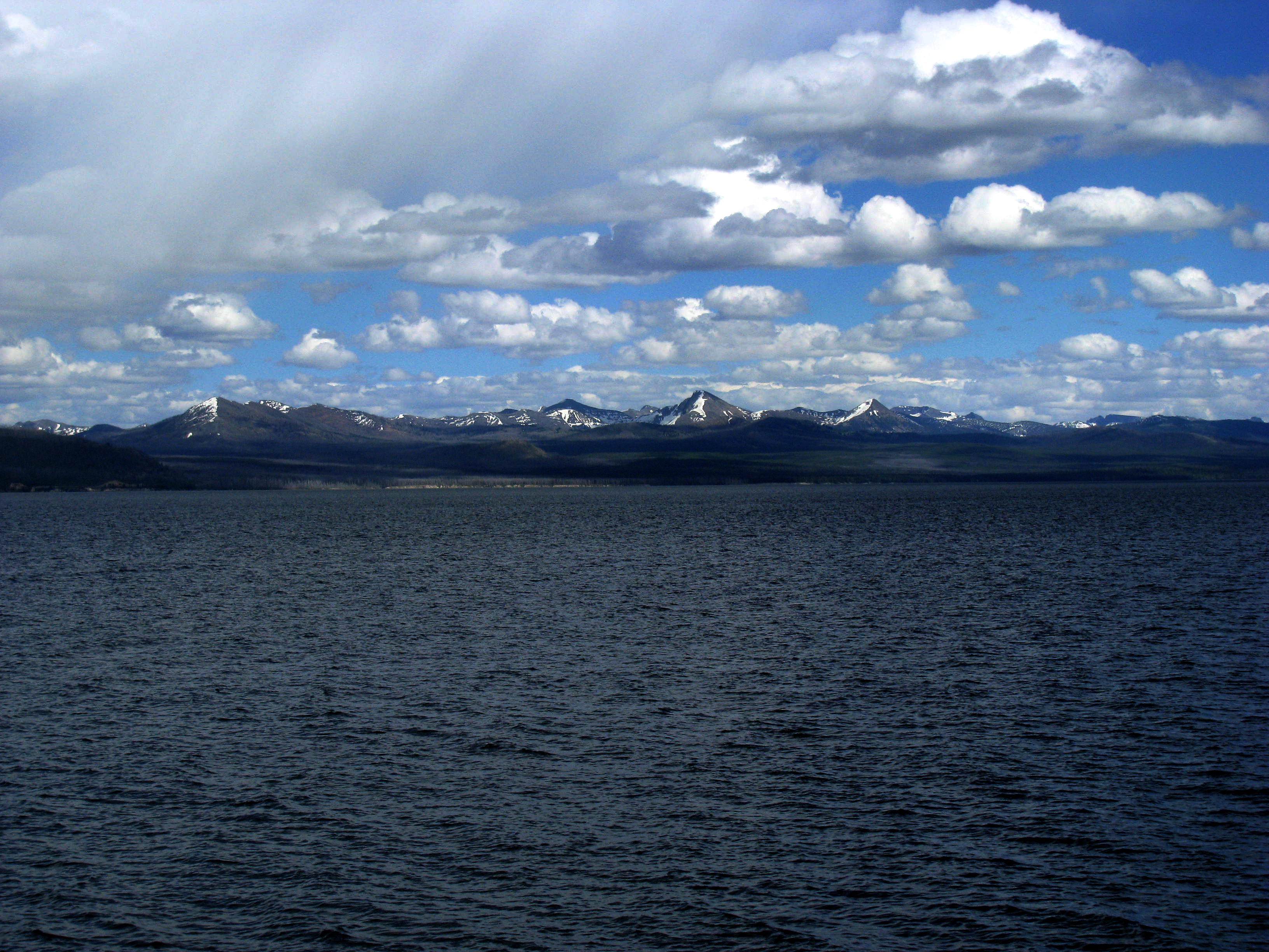 Yellow stone lake in Yellowstone National Park.